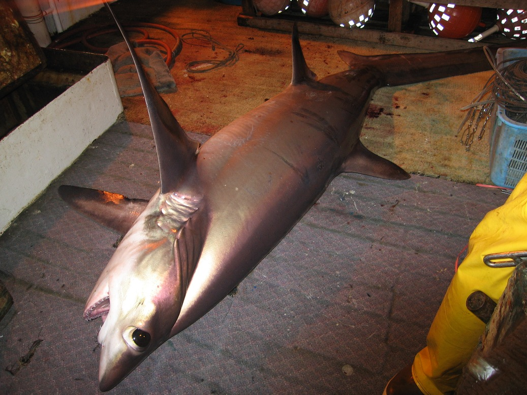 Bigeye thresher (Alopias superciliosus) caught by longline.